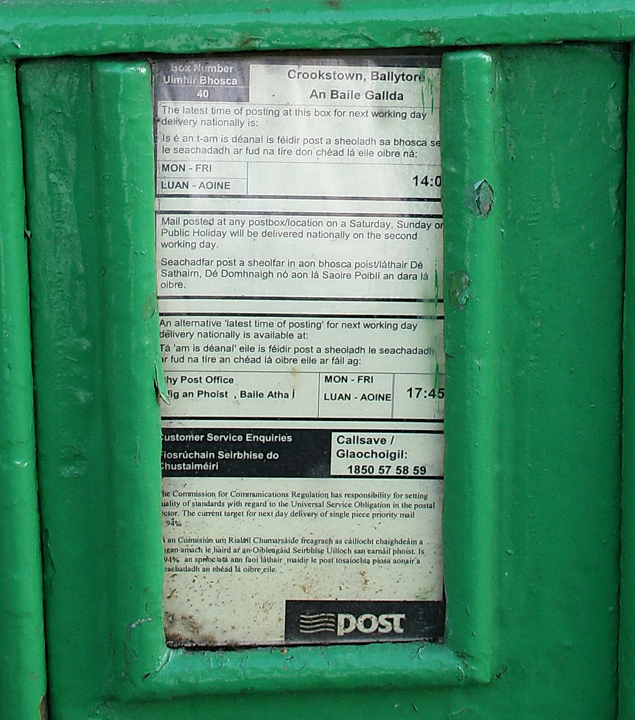 Old pre-independence postbox, Crookstown, County Kildare - still in use. Erected in the era of King #7, apparently.